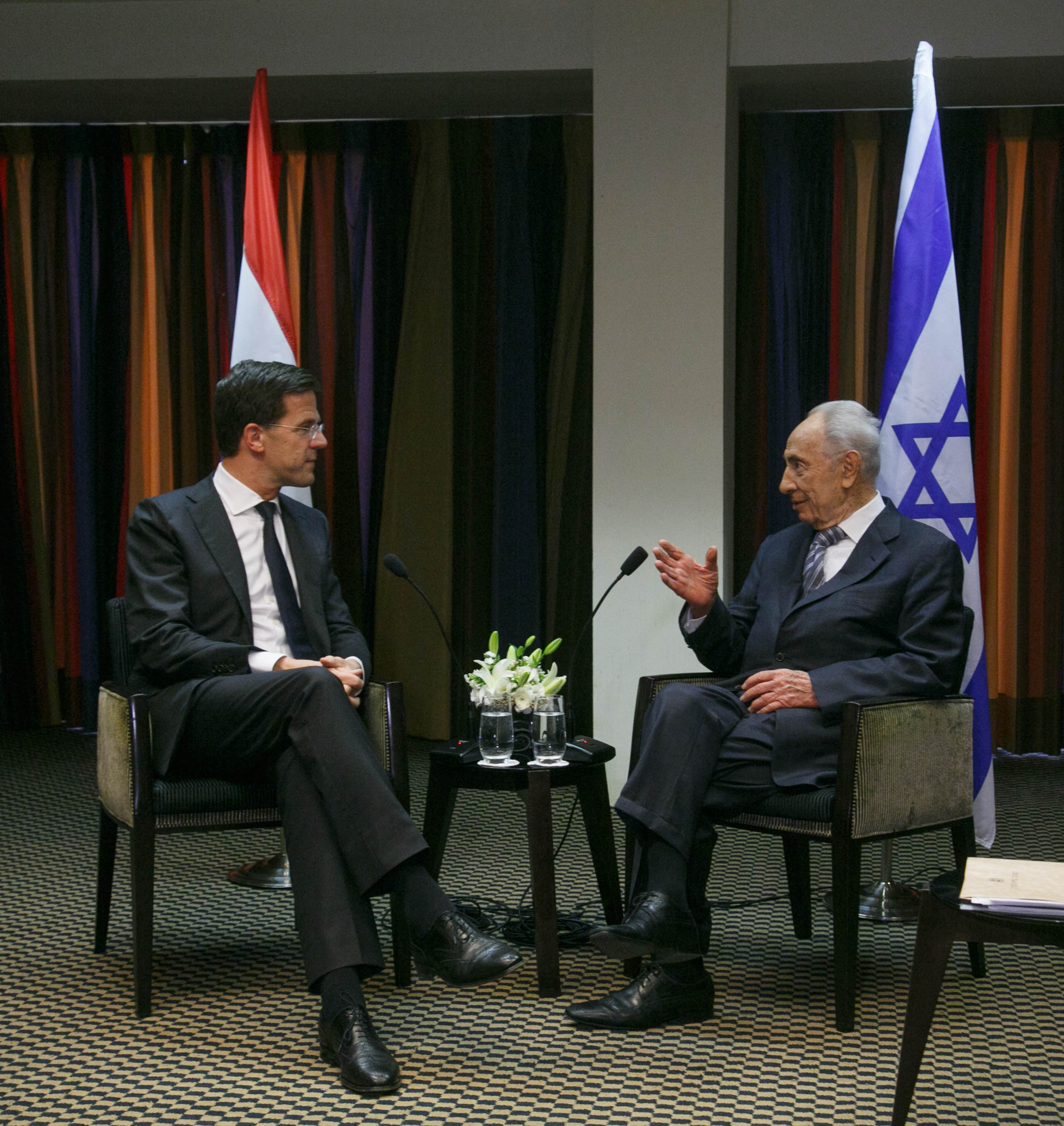 Minister-president Rutte ontmoet president Peres van Israël in Tel Aviv. Foto: Assaf Shilo